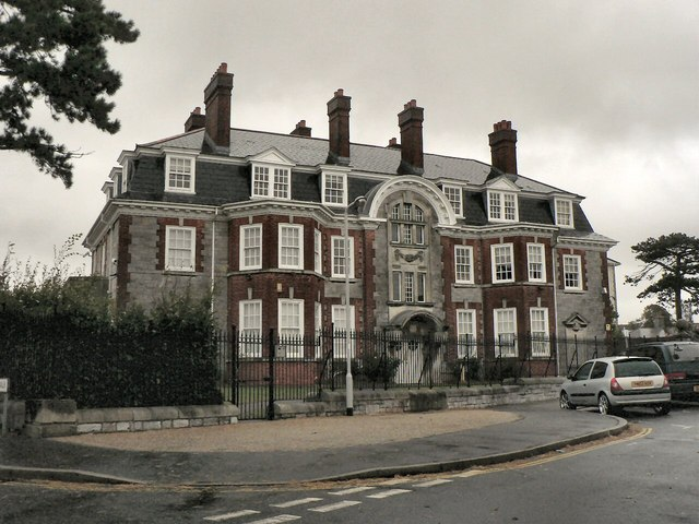 Freedom House Freedom Fields Plymouth Built in 1909 on the site of the City Hospital to house the Board of Guardians of the City Hospital. It is the only remaining original building since the hospital relocated to Derriford in 1994. The other buildings were then demolished and 'affordable' housing built on the site with Freedom House being converted into apartments.